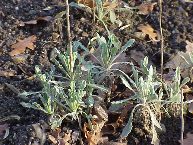 Species: Fibigia clypeata Family: Brassiaceae Image No. 1